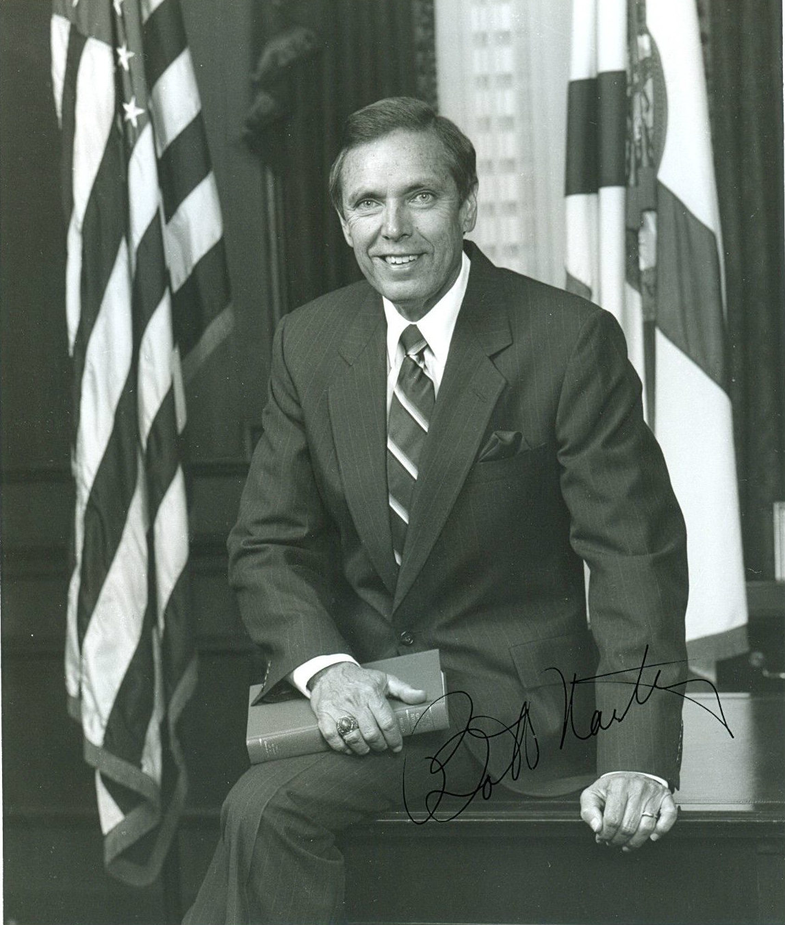 official portrait of former Florida governor Bob Martinez